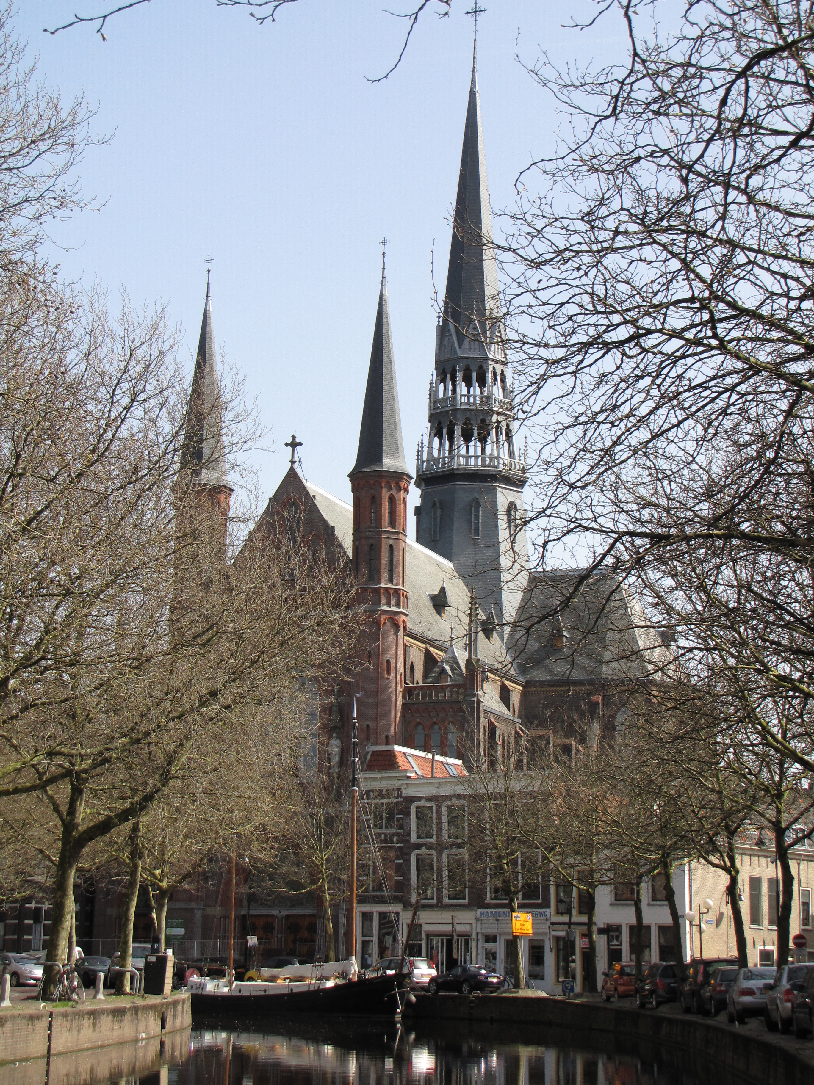 Gouwekerk, Gouda, The Netherlands